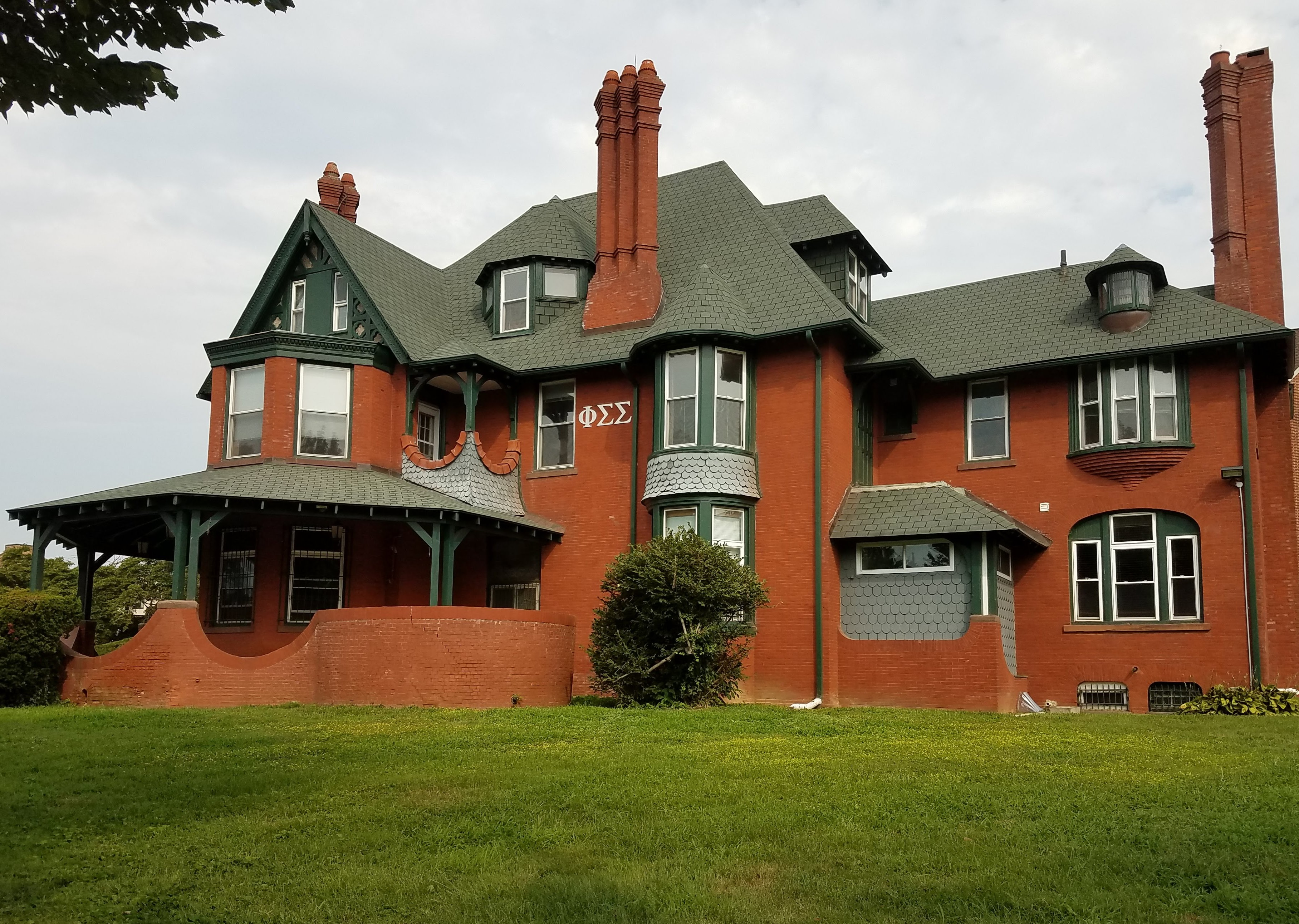 The Manor House on the campus of Widener University in Chester Pennsylvania built by Jonathan Edwards Woodbridge - photo taken August 2018